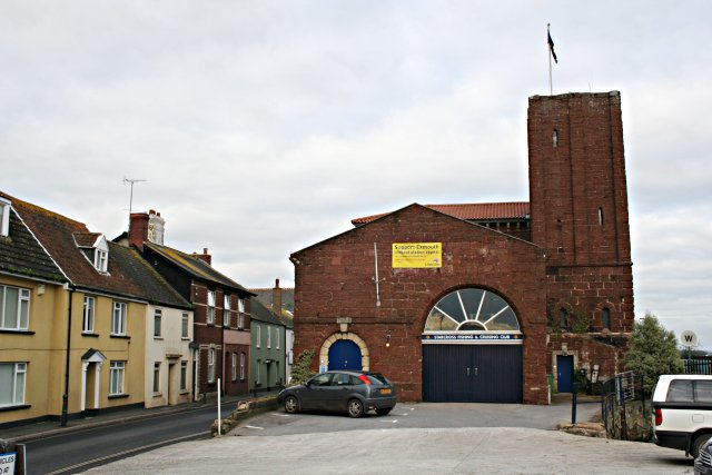 The Atmospheric Railway Pumping House, Starcross The title above was the original purpose of this building although it is now used by the Starcross Fishing and Cruising Club. The Atmospheric Railway was a means of propelling trains tried out by Brunel on the railway line between Exeter and Newton Abbott. A large pipe was laid along the centre of the track with a gap at the top closed with a leather flap. A piston underneath the train was inserted into the pipe and the air pumped out of it in front of the train by engines at pumping houses like this one spaced along the track. Atmospheric pressure behind the piston would ensure that it and the train were pushed forward. This system started running in 1847 but proved so troublesome that it was abandoned in 1848. The building pictured here is the last surviving pumping house. It is said that this building was built in an "Italianate" style, although that might have been more obvious if the top part of the tower had not been removed.